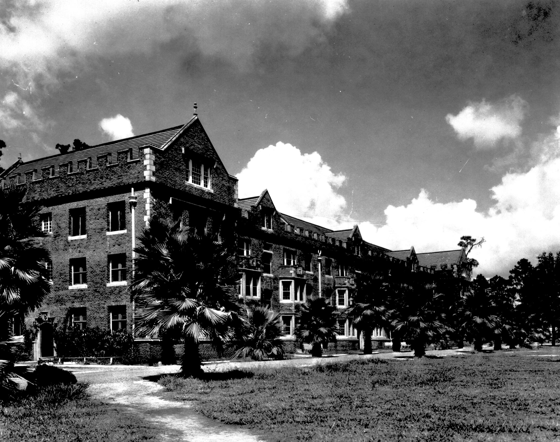 A historic photo of Buckman Hall